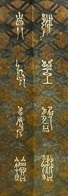 what the script means